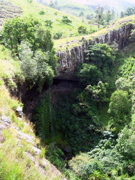 Entrance of the Male Cave Ndemvoh in Fongo Tongo, West, Cameroon